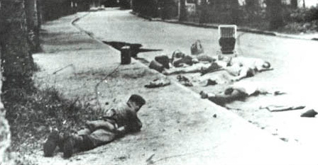 Original caption: “U.S. Air Force photos. Some of the hostages after the terrible shooting by the rebels”.Photo is of the rescue operation of Western hostages held in Stanleyville during the Congo Crisis in late November 1965. The soldier lying prone appears to be a Belgian paracommando. 50 years later he was identified by former hostages and admitted the picture was a build-up. He was asked by a photographer to lay on that spot just the time of a photograph. Indeed the hostages were killed minutes before the troops arrived and the soldiers immediately took full control of that street. Above all, the way this soldier lays is against all tactical options.